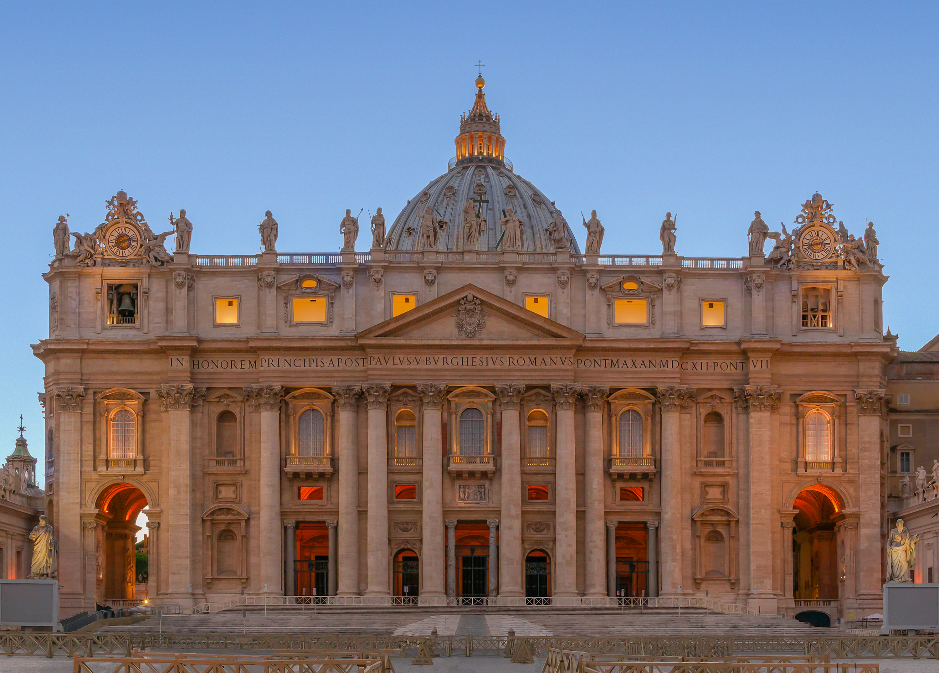 Facade of Saint Peter's Basilica in Rome, beginning of the evening. Vatican City.